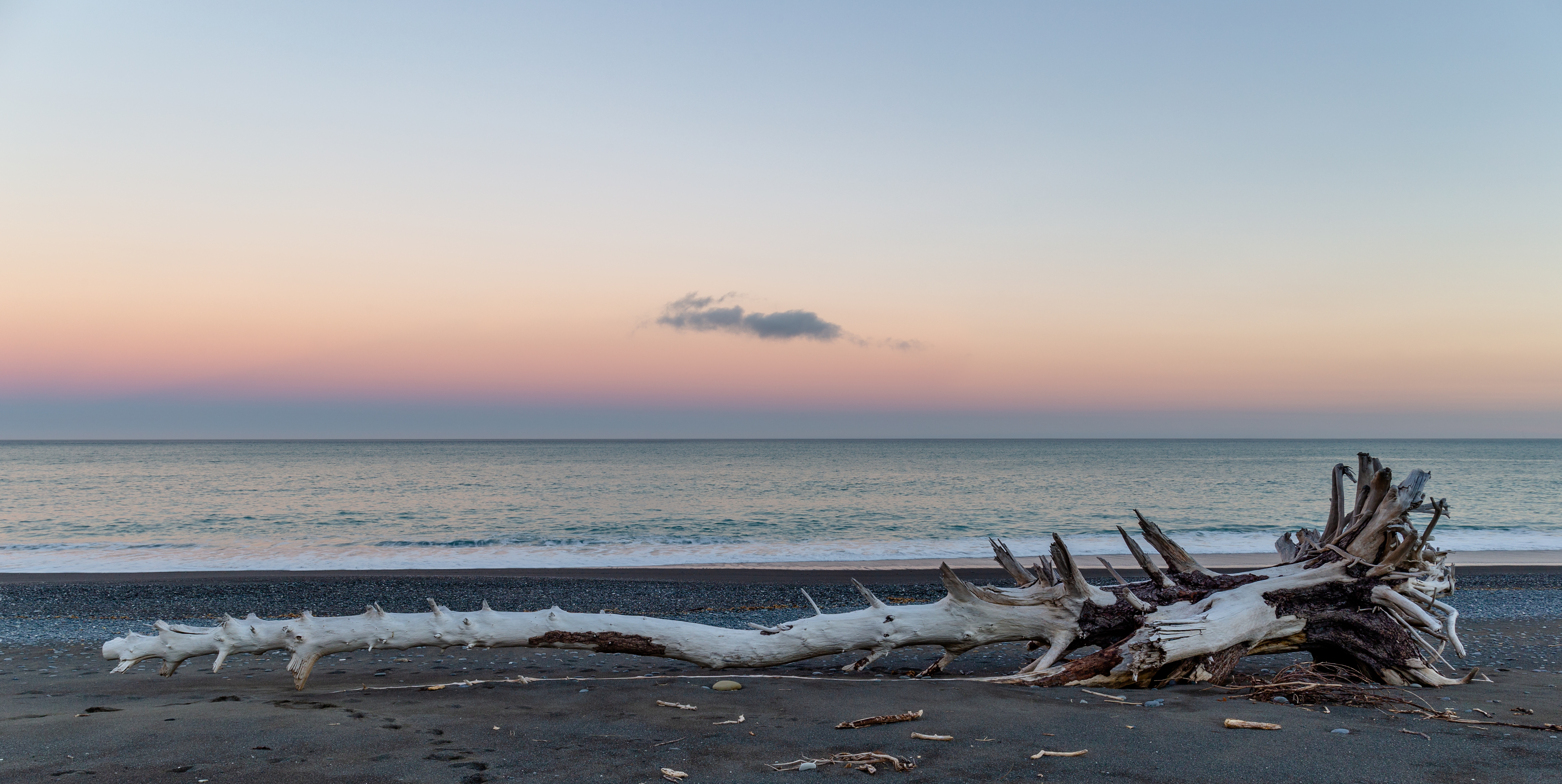 Driftwood on the beach north of Kaikoura, Canterbury, New Zealand